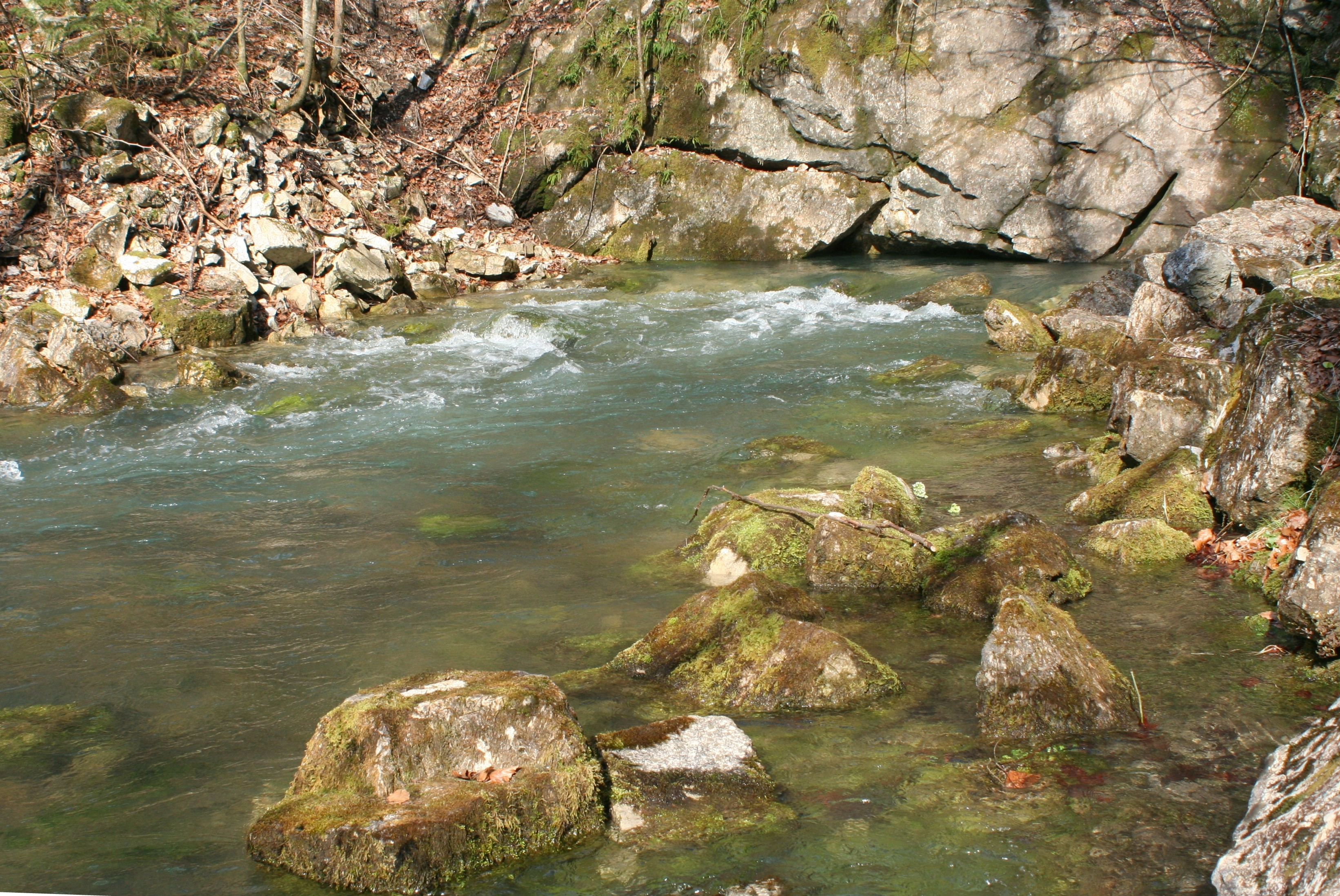 Steinbachquelle in the Hauptdolomit near Hollenstein an der Ybbs, Lower Austria